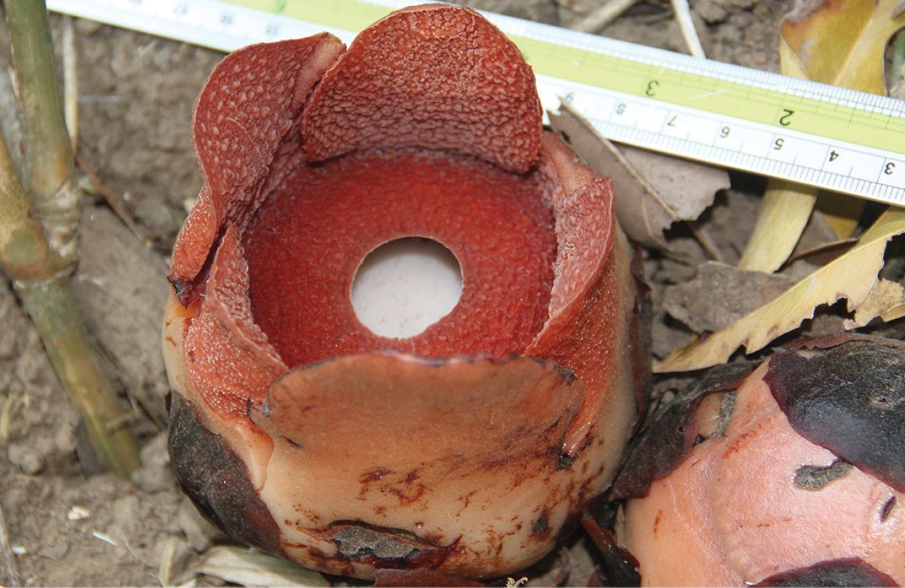 Rafflesia consueloae Galindon, Ong & Fernando. Open flower.